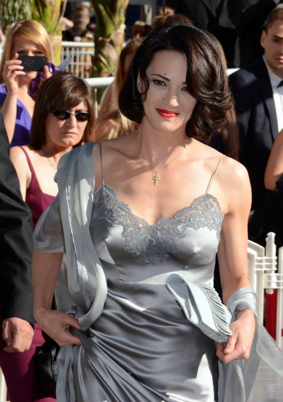 Asia Argento at the Cannes film festival